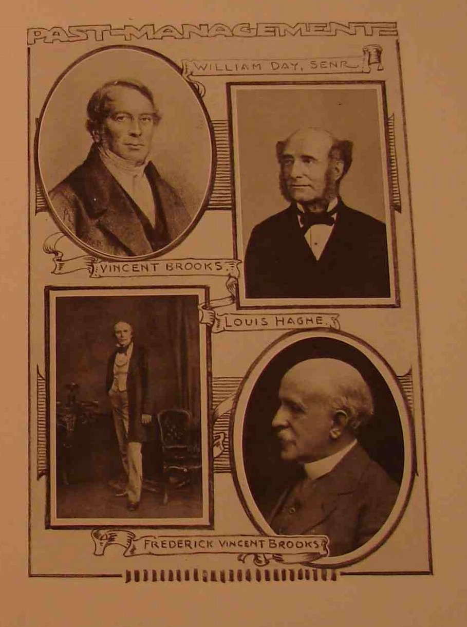 A page from the programme from the celebration of the Centenary of Vincent Brooks, Day & Son Ltd showing some of the firm's past management: William Day (1797–1845) Alternative names William, II Day; William Day SrDescriptionBritish lithographer and printerDate of birth/death 1797 13 February 1845Location of birth/death Lincoln's Inn FieldsWork location LondonAuthority control : Q8007694 VIAF: 42114827 ISNI: 0000 0000 6662 1740 ULAN: 500021232 LCCN: nr2001014626 Oxford Dict.: 63102 WorldCat creator QS:P170,Q8007694 Louis Haghe (1806–1885) DescriptionBritish lithographer and painterCo-founder of Day & Haghe, lithographers to the Queen; president of the New Society of Painters in Water Colours 1873–1884Date of birth/death 17 March 1806 9 March 1885Location of birth/death Tournai StockwellWork location Greater LondonAuthority control : Q1656919 VIAF: 32026932 ISNI: 0000 0001 1489 7312 ULAN: 500017271 LCCN: n85814315 NLA: 35066561 WorldCat creator QS:P170,Q1656919 Vincent Brooks (1815–1885) Alternative names Vincent Robert Alfred BrooksDescriptionBritish visual artist, printmaker, lithographer, publisher and stationerDate of birth/death 1815 29 September 1885Location of birth/death London PutneyWork period1839–1868Work location LondonAuthority control : Q18508706 VIAF: 51537881 ISNI: 0000 0001 1641 1996 ULAN: 500029991 LCCN: nr90006004 NLA: 35776863 WorldCat creator QS:P170,Q18508706 Frederick Vincent Brooks (1848–1921) Alternative names Brooks, Frederick VincentDescription businesspersonDate of birth/death 1848 1921Authority control : Q16862255 creator QS:P170,Q16862255